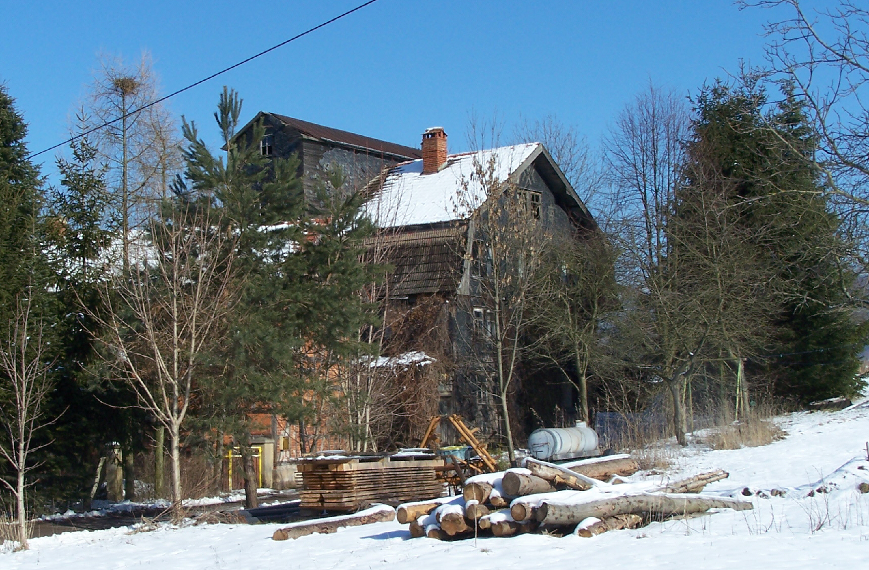 The old mill Erbachsmühlenear Waldfisch.